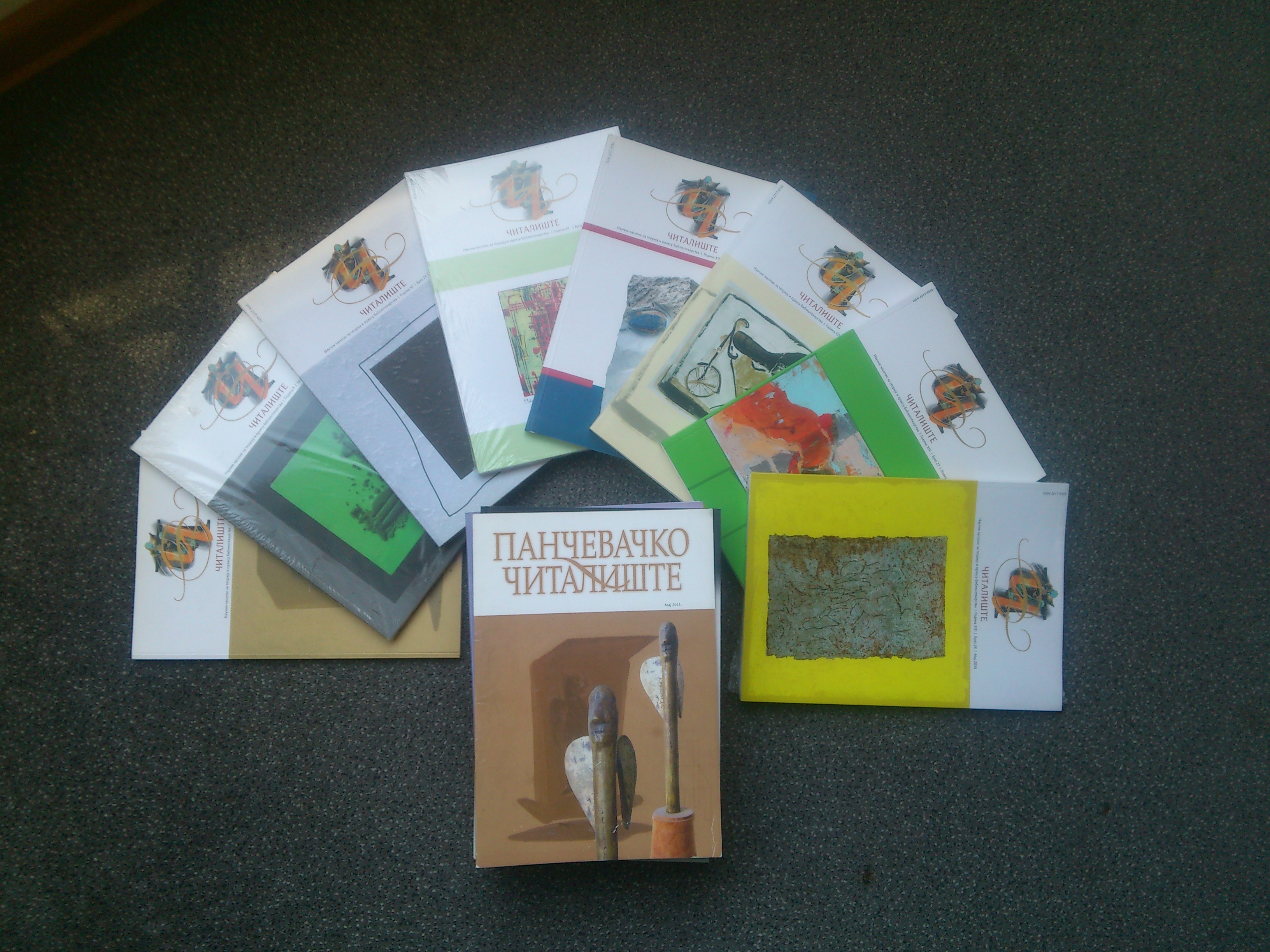 Serbian journal